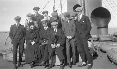 Members of the Winnipeg Falcons hockey team (with an officer and unidentified woman) aboard RMS Grampian, en route to the 1920 Olympics in Antwerp, Belgium.